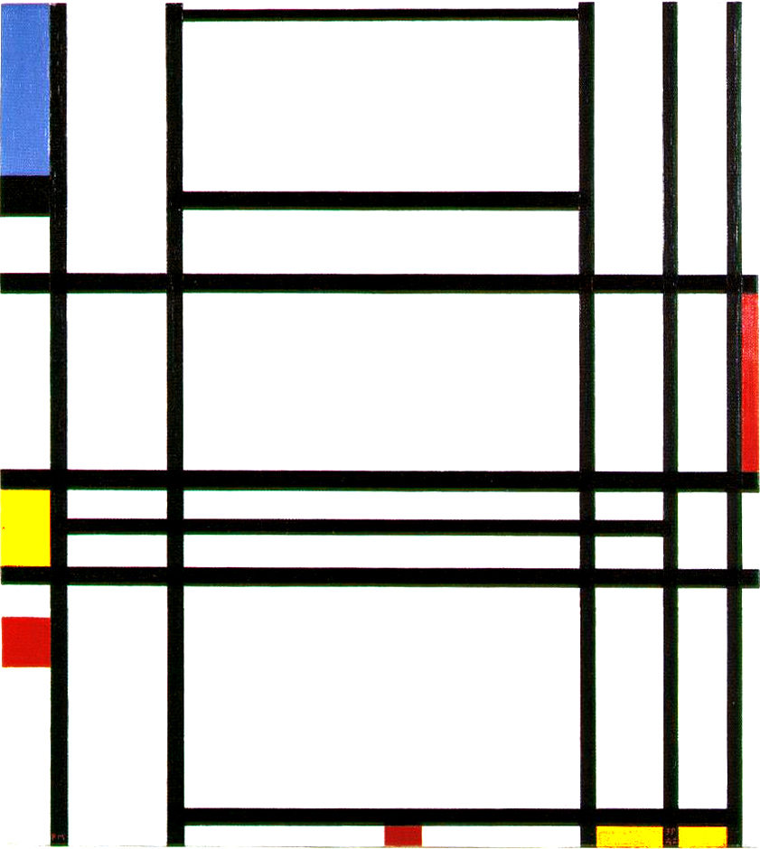 Composition No. 10. 1939-42. Piet Mondrian. Oil on canvas. 80 x 73 cm. Private collection.